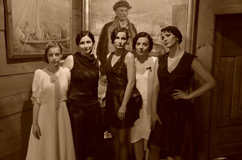 Spectacle: 125 anniversary of Maria Kasprowiczowa, Zakopane 2012